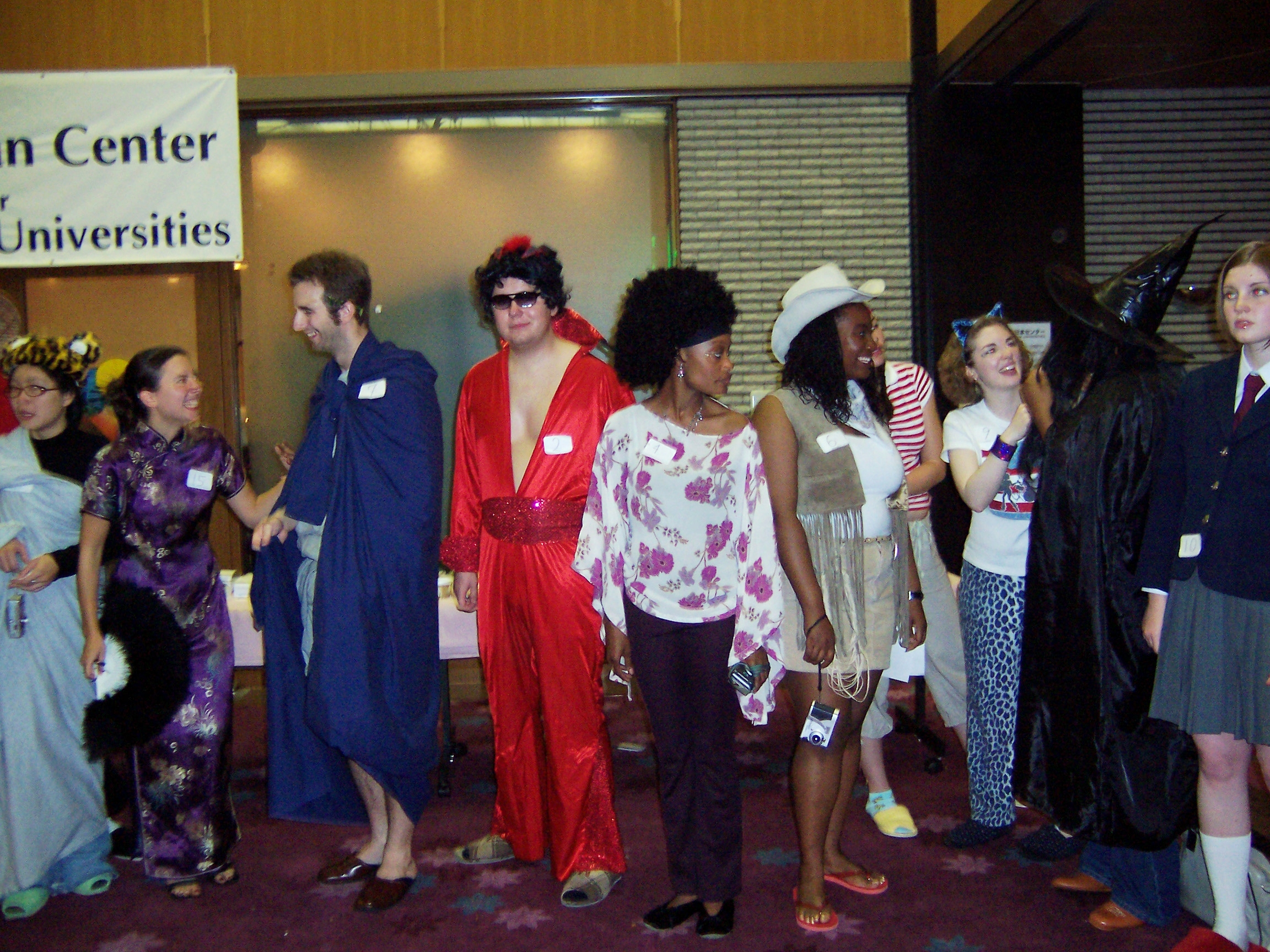 The costume contest at the JCMU Halloween party in 2003. The student in the red suit won that year for his Hellvis costume, a cross between Elvis and the devil.